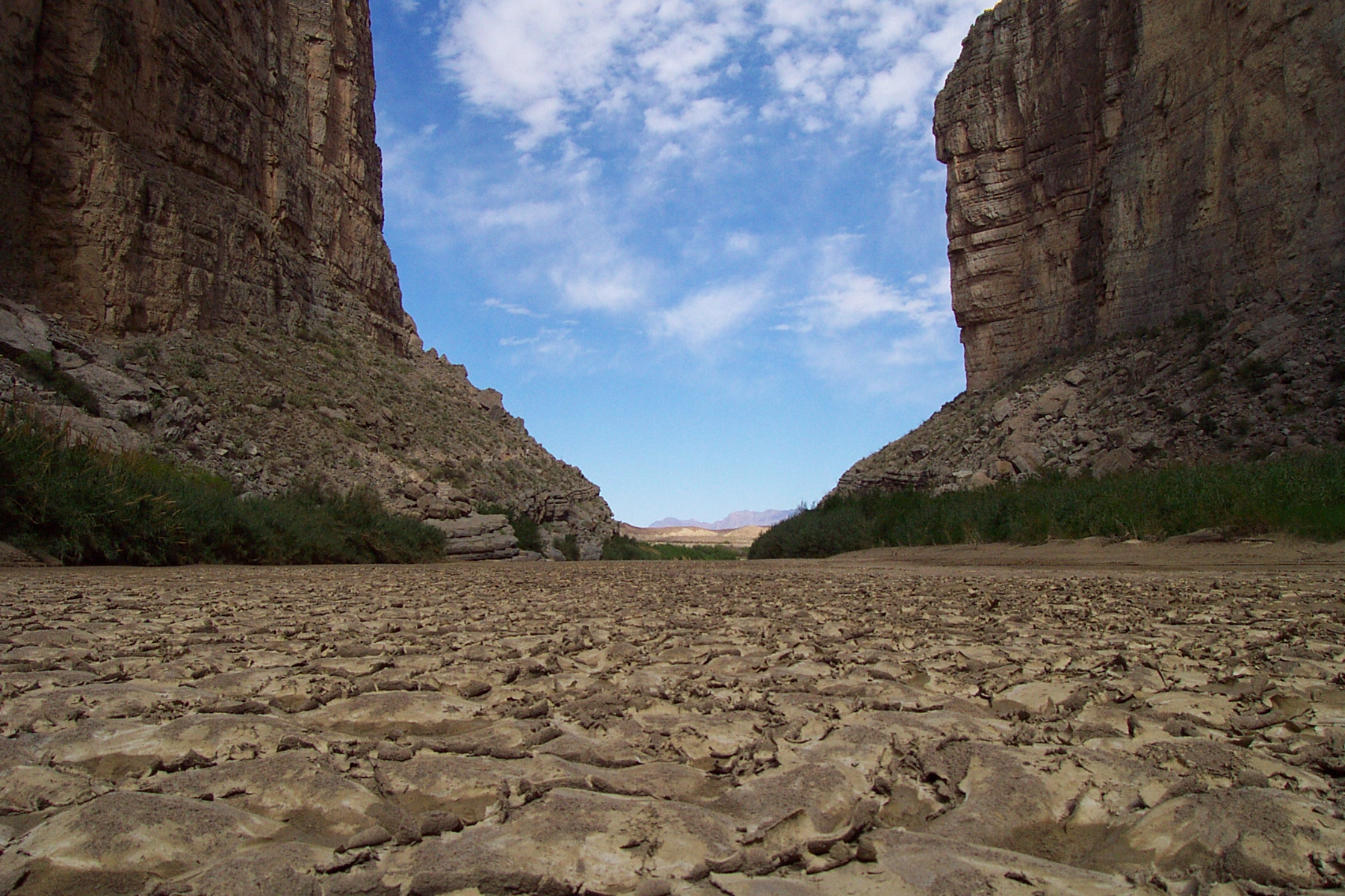 Dry riverbed in Santa Elena Canyon in Big Bend National Park, Texas, United States. Rio Grande facing downstream (Mexico on right, United States on left). Note: The river was flowing adjacent, large enough for people to canoe down it. This photo is a closeup of a sand bar.